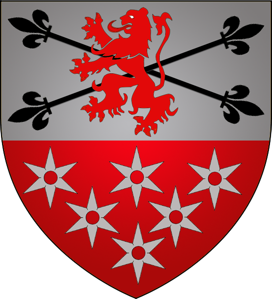 Coat of arms of the municipality of Bous, Luxembourg